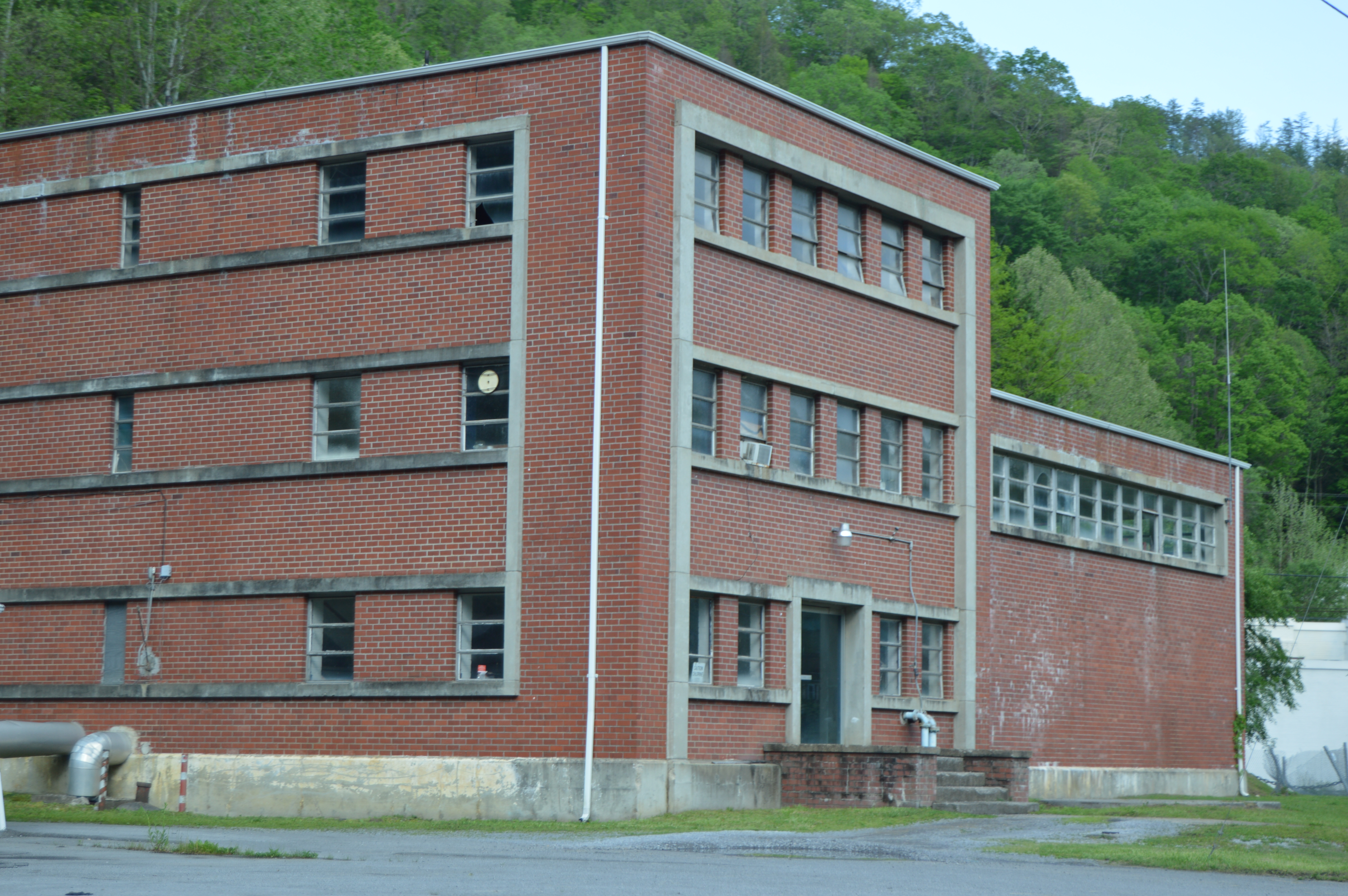 Front of the former company store on West Virginia Route 103 in the Wilcoe section of Gary, West Virginia, United States.